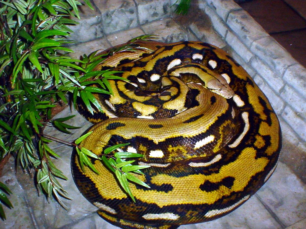 "Fluffy", a Reticulated Python (Python reticulates). The largest snake on exhibit in the world, 24 feet long, 300 pounds, and hatched in captivity. Photographed March 5, 2009 by Adolphus79.